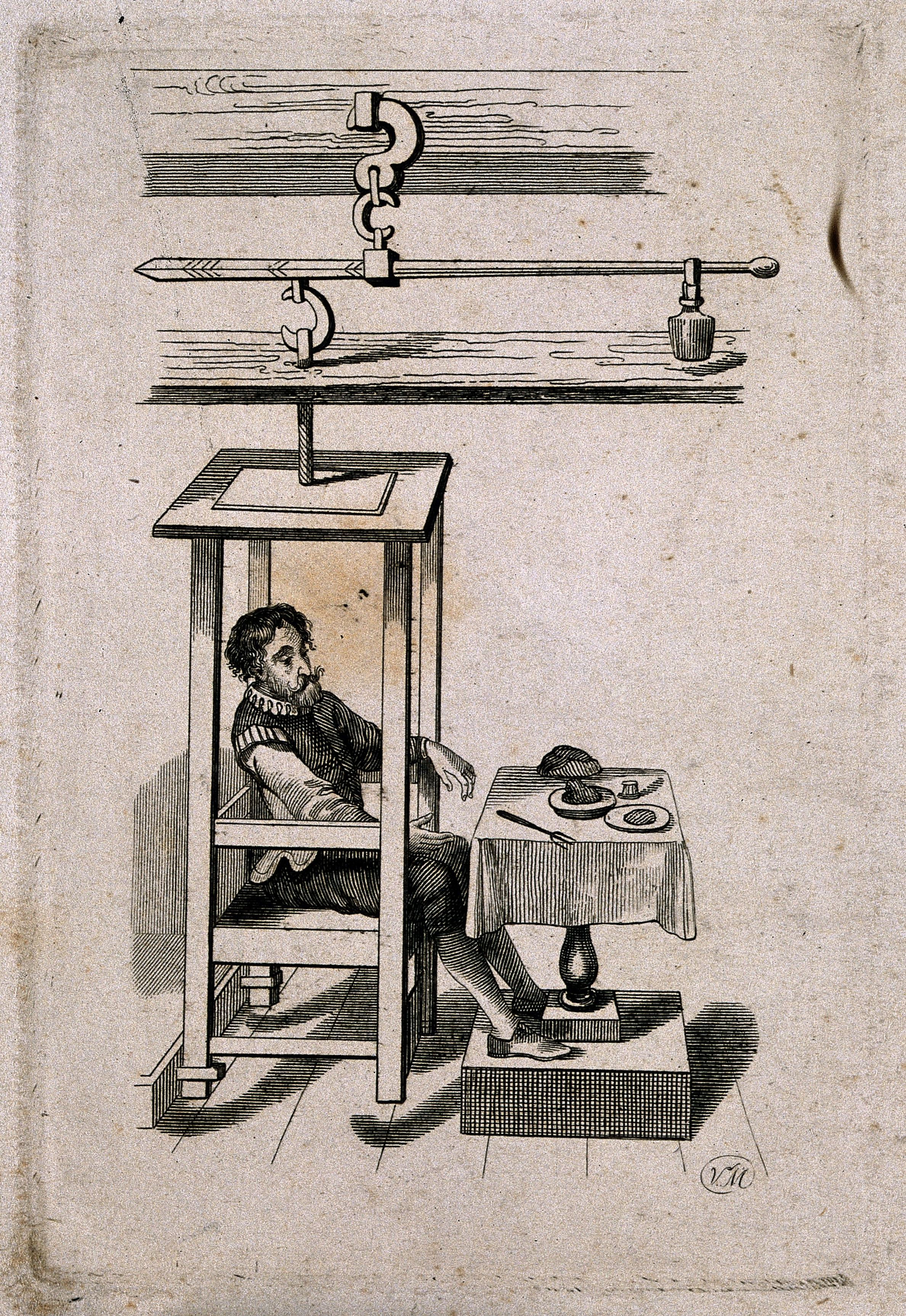 Line engraving showing Sanctorio sitting in the balance that he constructed to determine the net weight change over time after the intake and excretion of food stuffs and fluids Iconographic Collections Keywords: portrait prints; engravings; Sanctorius Sanctorius